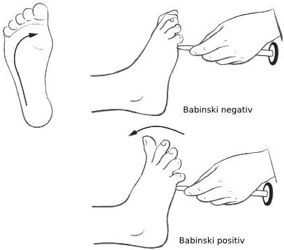 Drawing of Babinski's sign, German captions